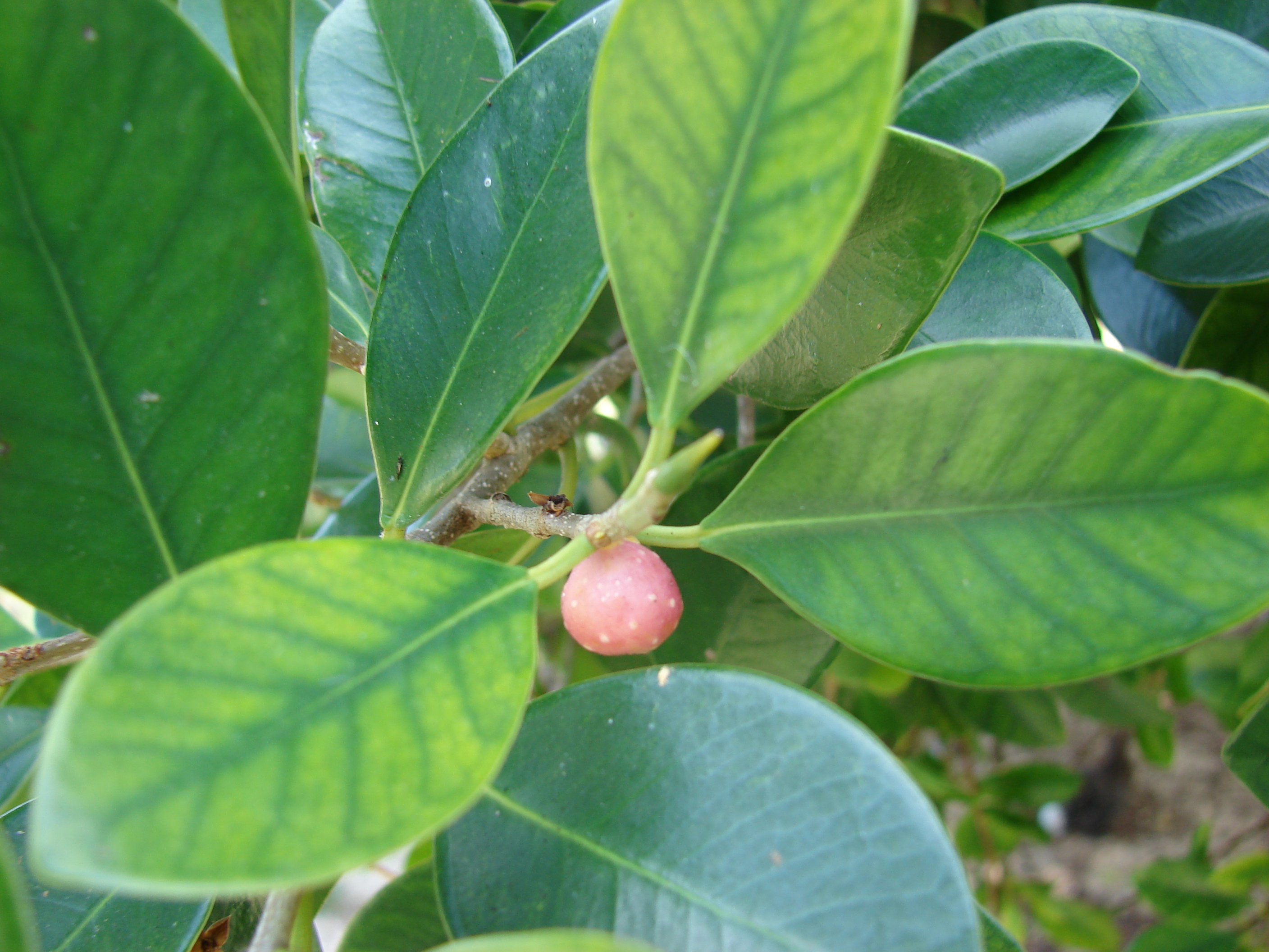 Ficus microcarpa (fruit and leaf). Location: Midway Atoll, Commodore Ave across from barracks Sand Island